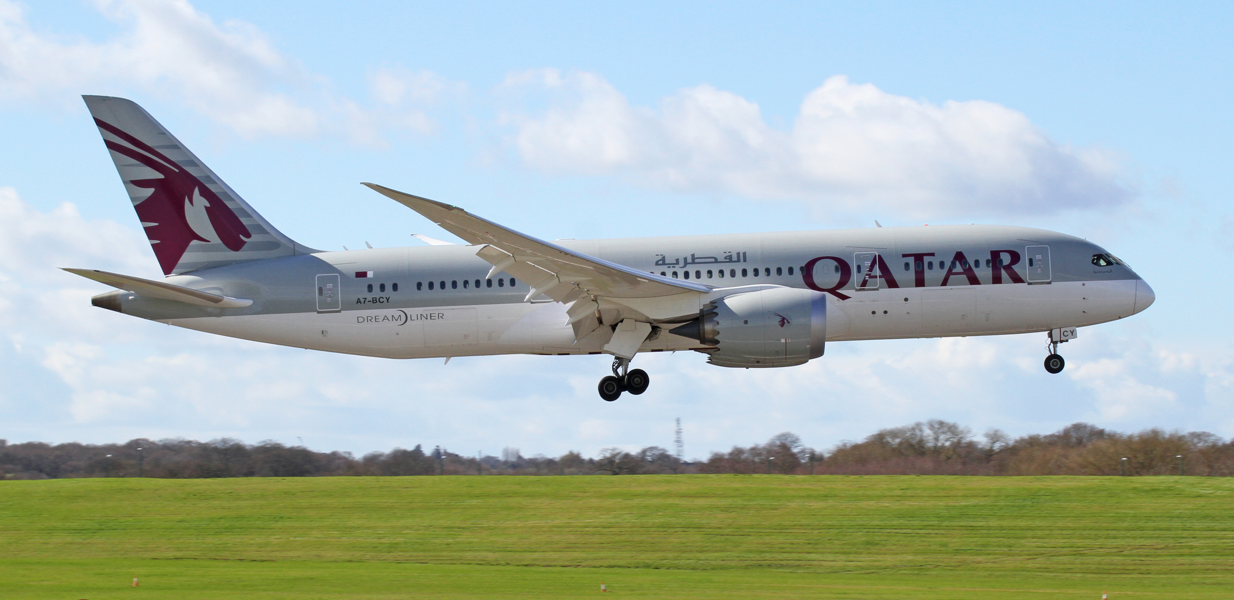 A7-BCY Qatar Airways Boeing 787-8 Dreamliner 2